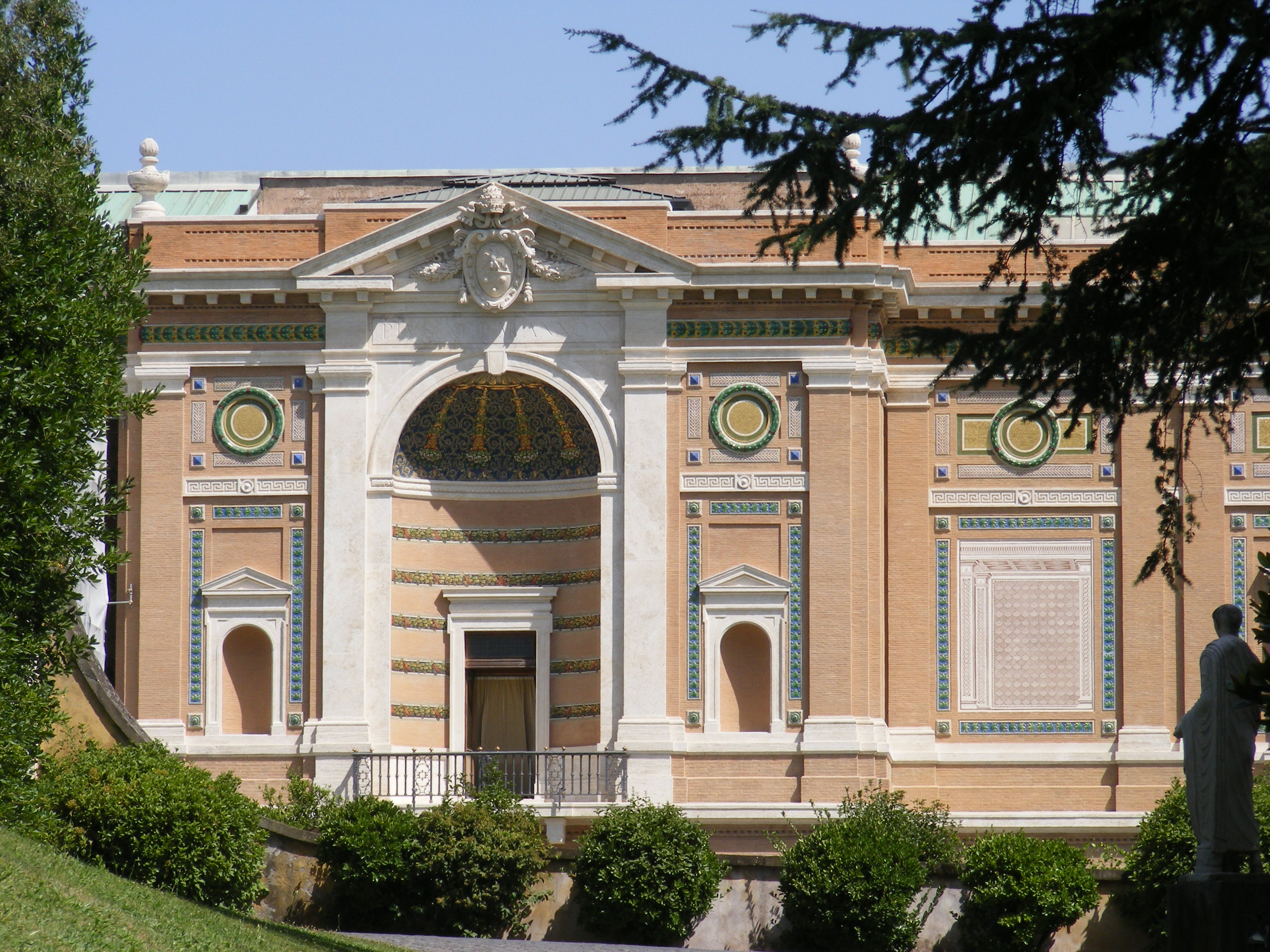 Pinacoteca Vaticana, exterior (southwest part). View over the southern external wall of the Square garden.